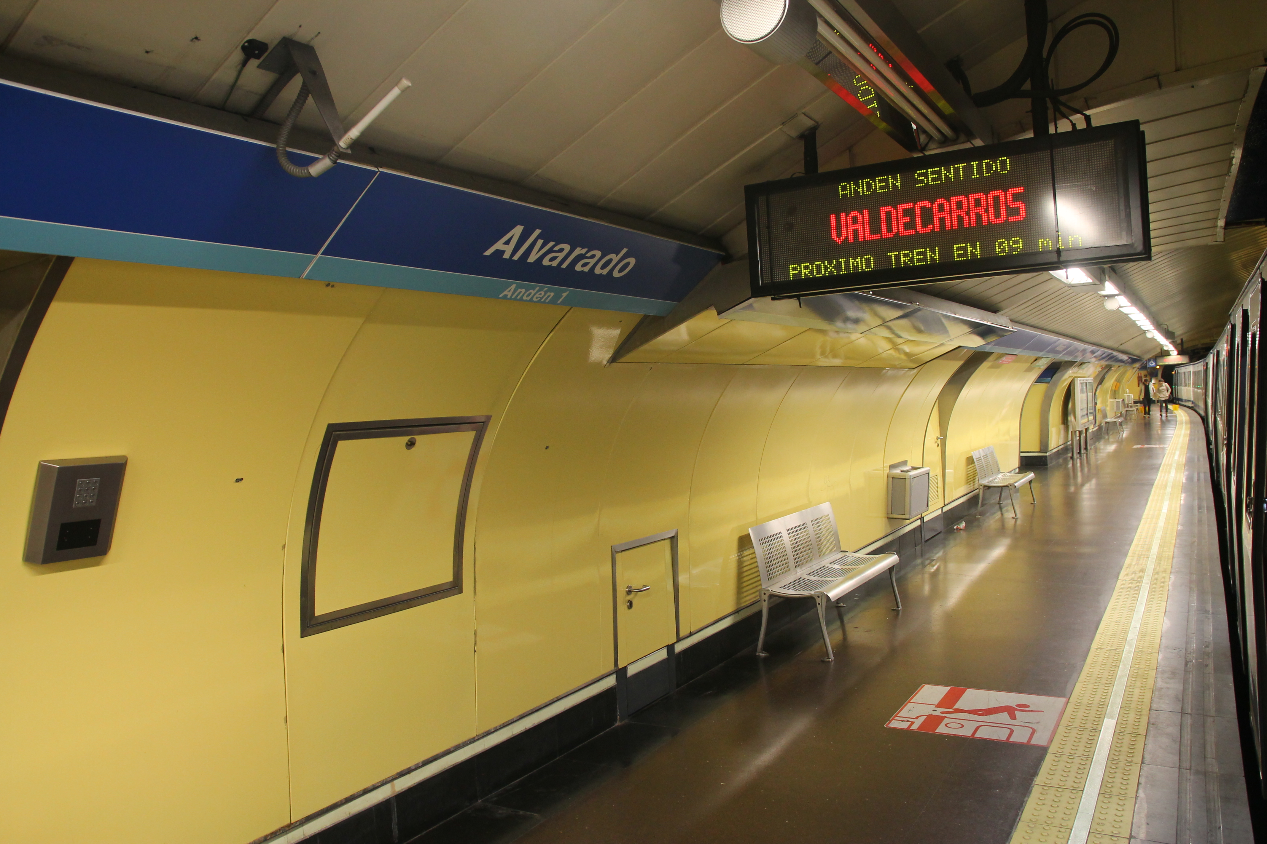 Estación de Alvarado